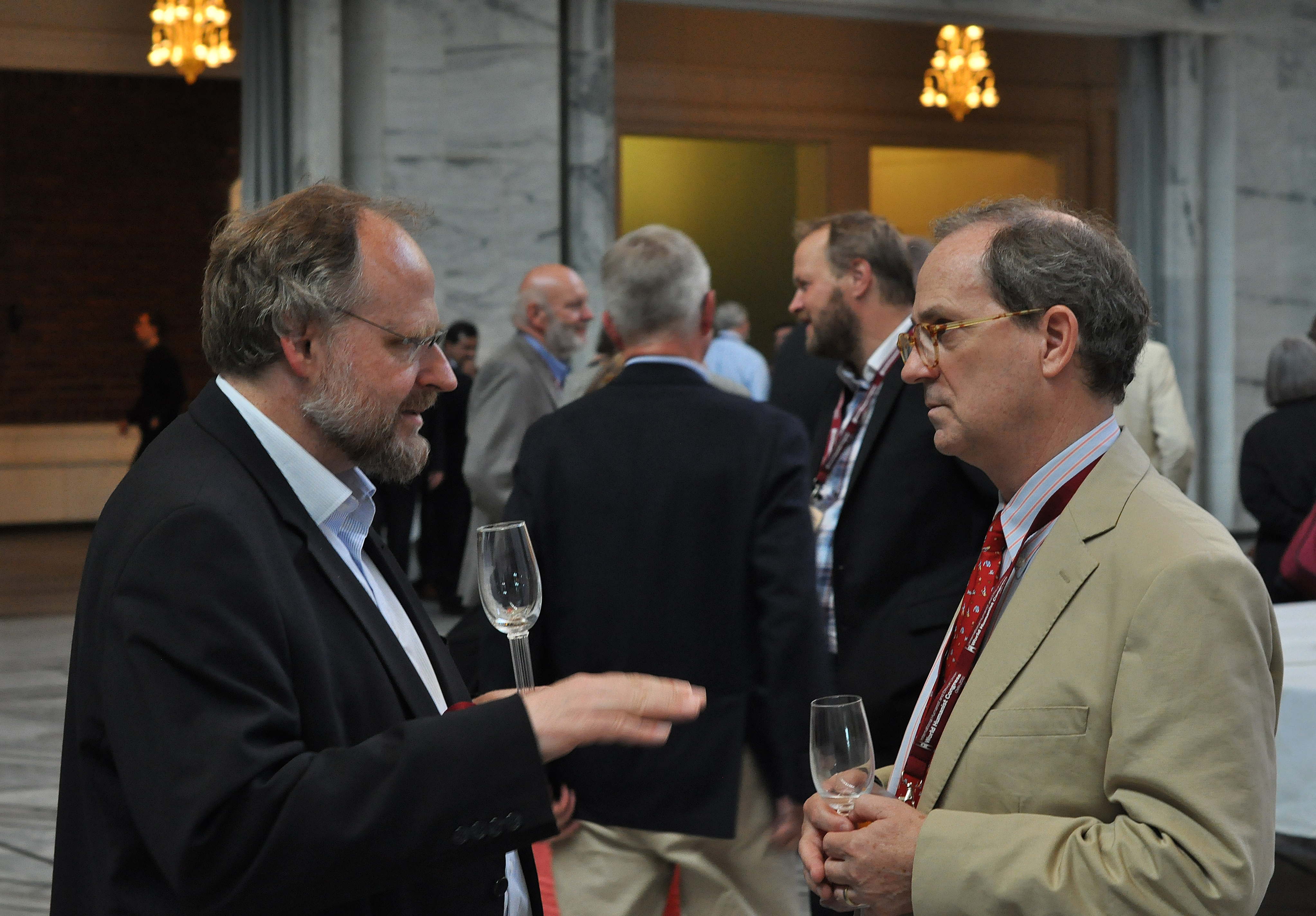 Heiner Bielefeld (left), special rapporteur on freedom of religion or belief at the UN Human Rights Council, and Jeremy Gunn, Associate Professor in the School of Humanities and Social Sciences at Al Akhawayn University in Ifrane, Morocco, at the reception at City Hall, during the World Humanist Congress 2011 in Oslo.